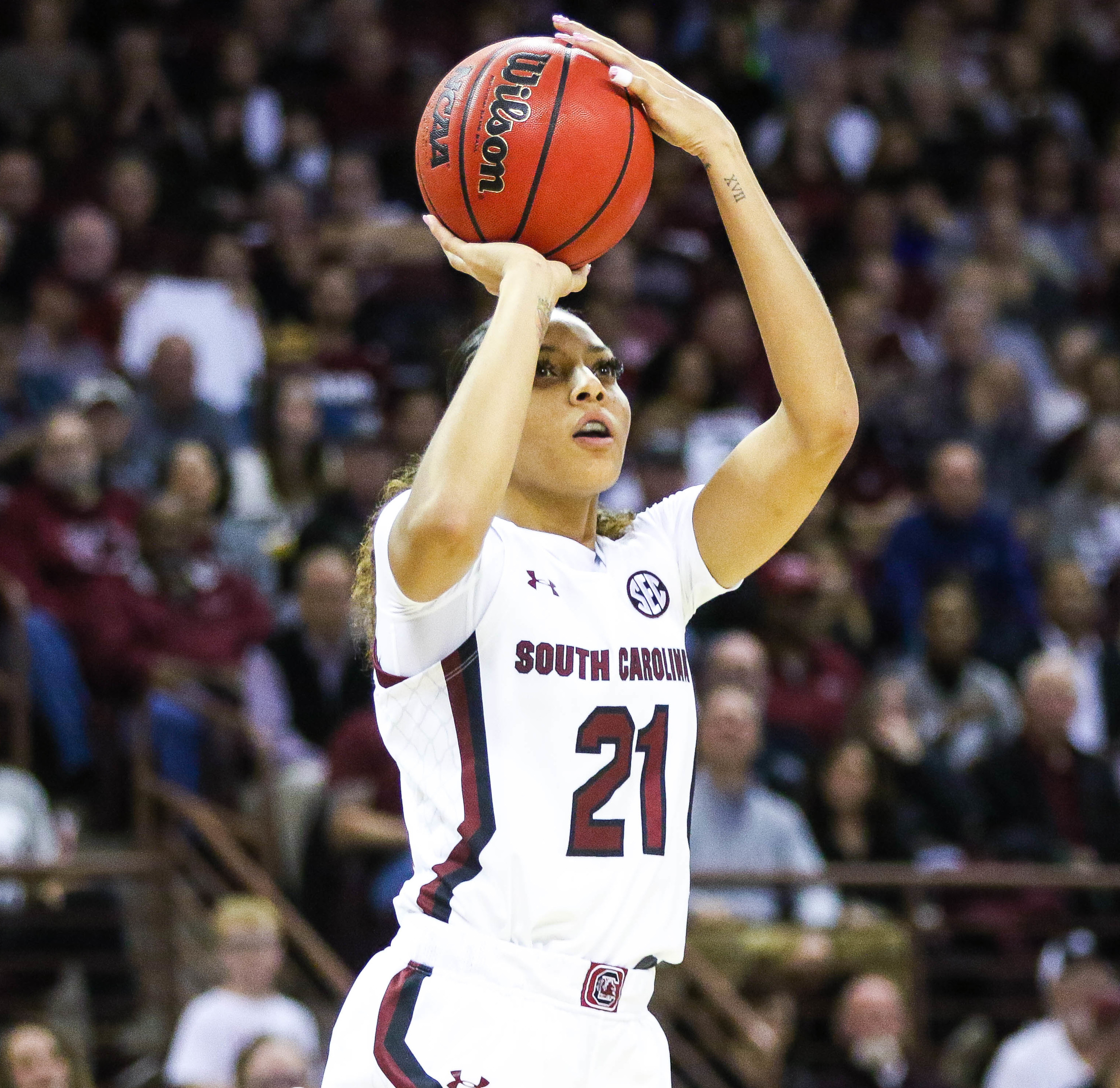 Kiki Herber Harrigan Photo by Katie Dugan